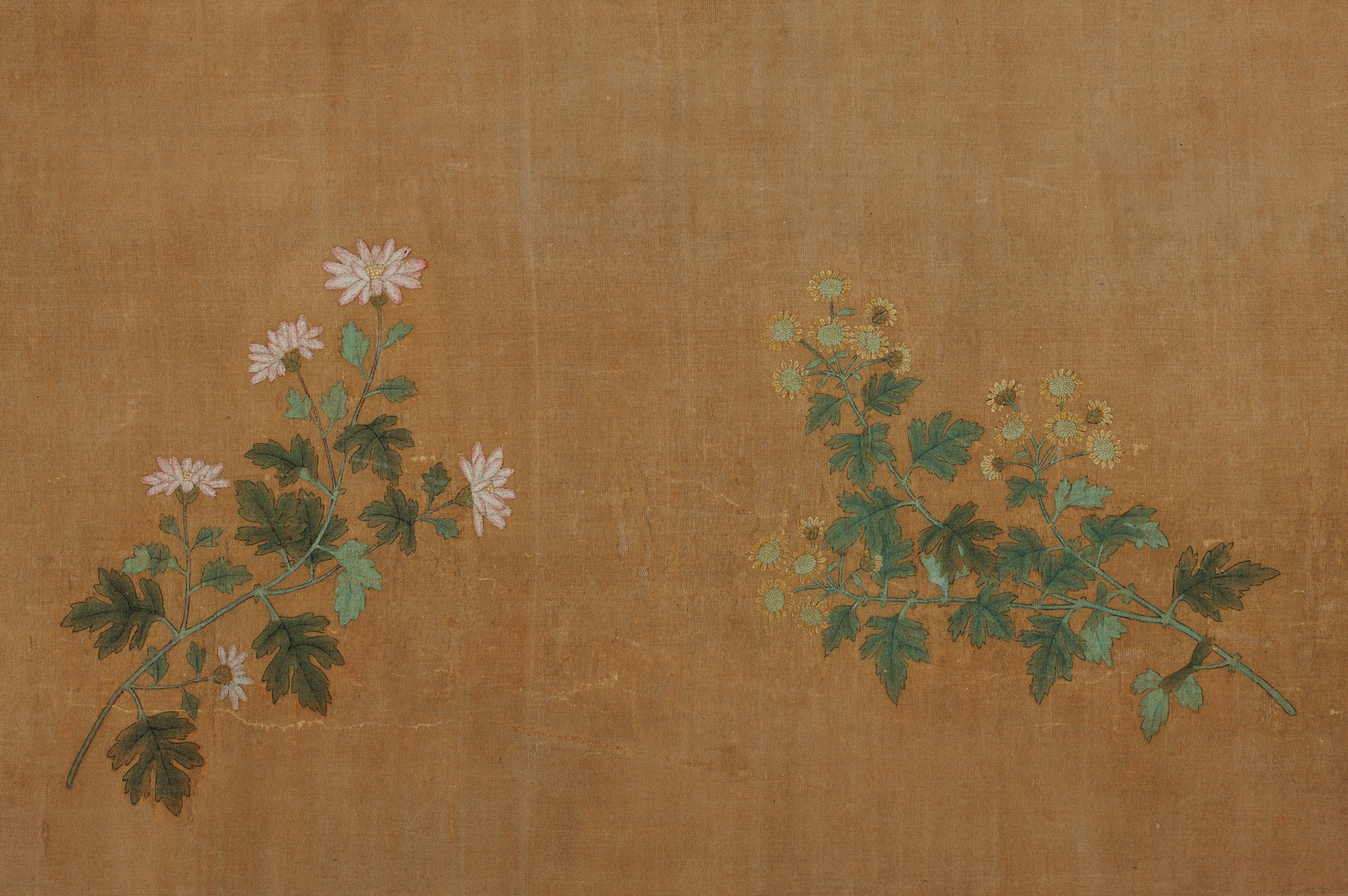 Zhao Mengfu. Ten Chrisantemums. 1300-1310 Section. Sotheby's.